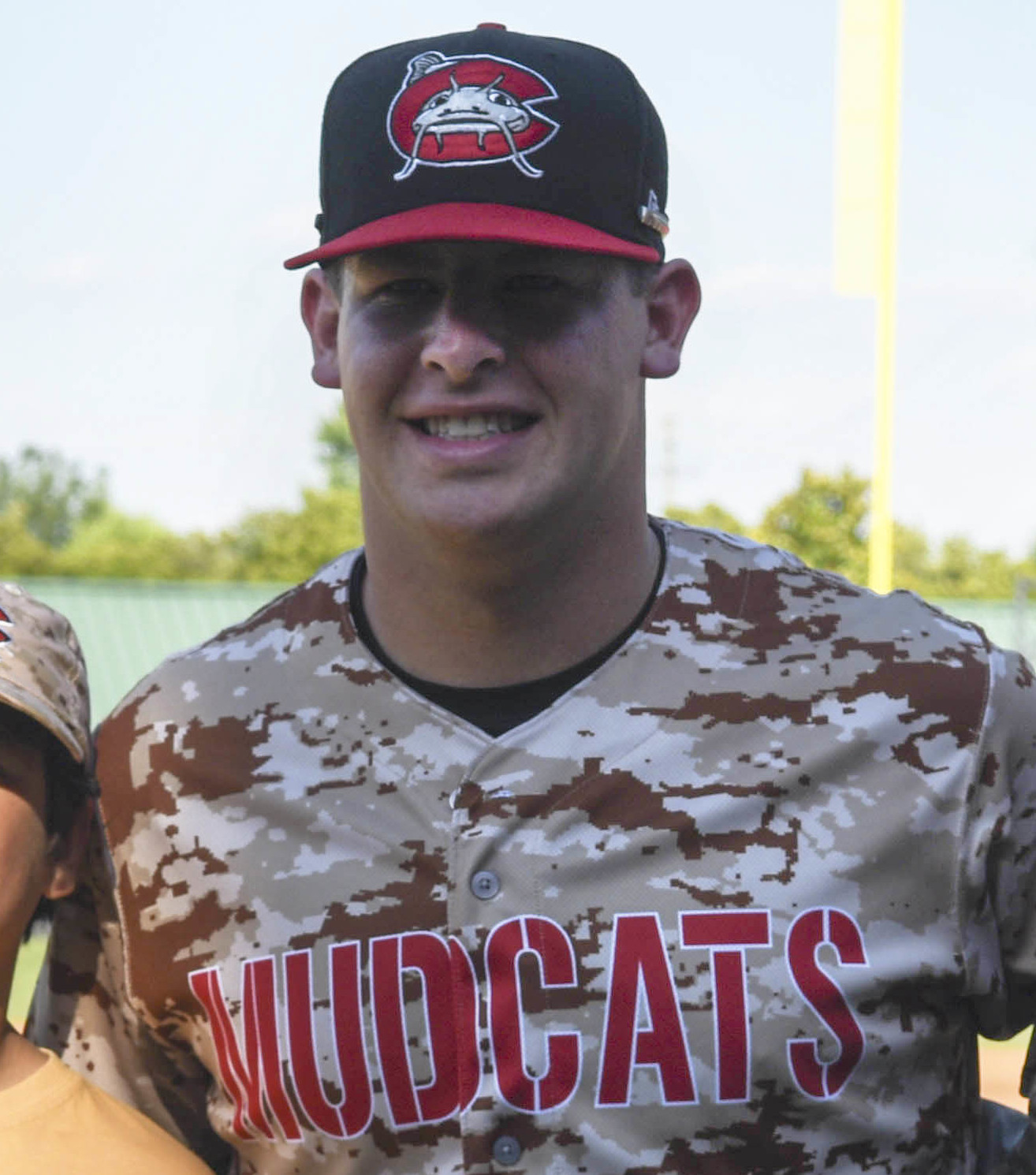 Tech. Sgt. David Kelly (right), 4th Security Forces Squadron anti-terrorism program manager, takes a photo with A.J. Minter (center), Carolina Mudcats pitcher, and the son of Army National Guard Spc. Jocelyn Luis Carrasquillo, following opening ceremonies June 11, 2016, in Zebulon, North Carolina. The Mudcats hosted a military appreciation night where they honored Kelly and the Gold Star Family of Carrasquillo. (U.S. Air Force photo by Airman Shawna L. Keyes/Released)